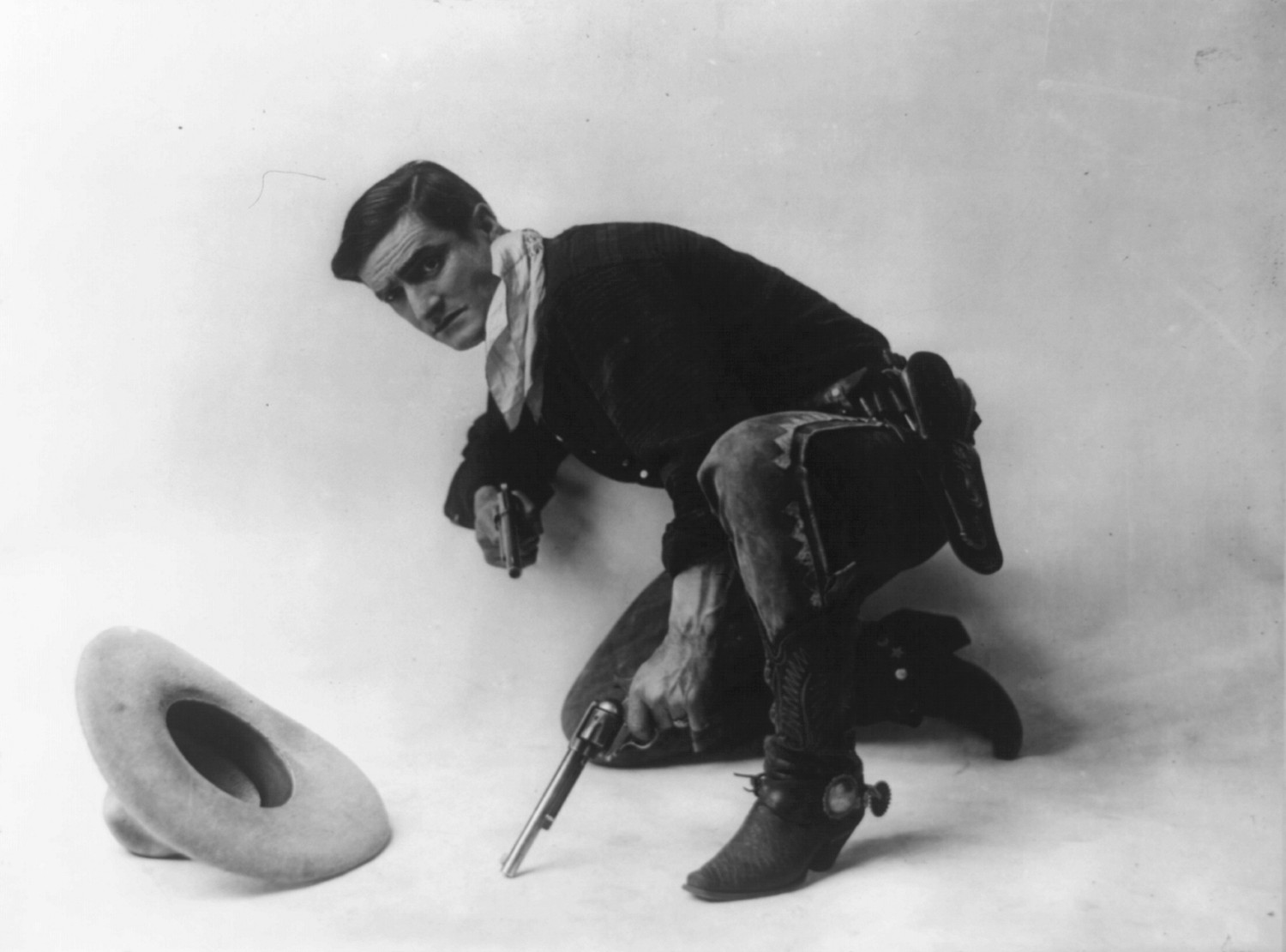 Tom Mix, full-length portrait, kneeling, facing left, holding two guns, hat on floor, in "Mr. Logan, U.S.A."